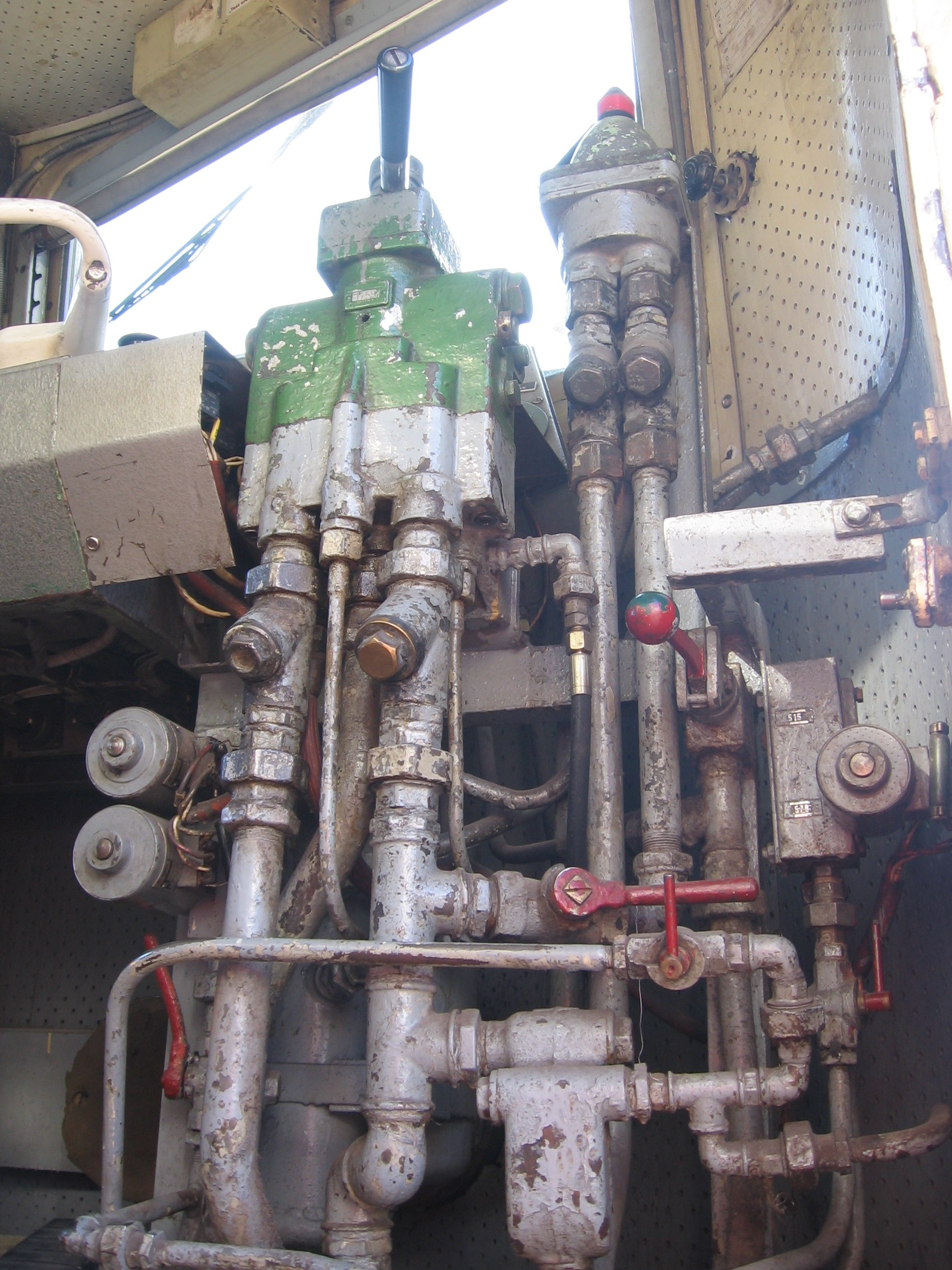 242 213 - air brake